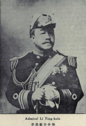 Li Dingxin, Chengmei (1861 - 1930)